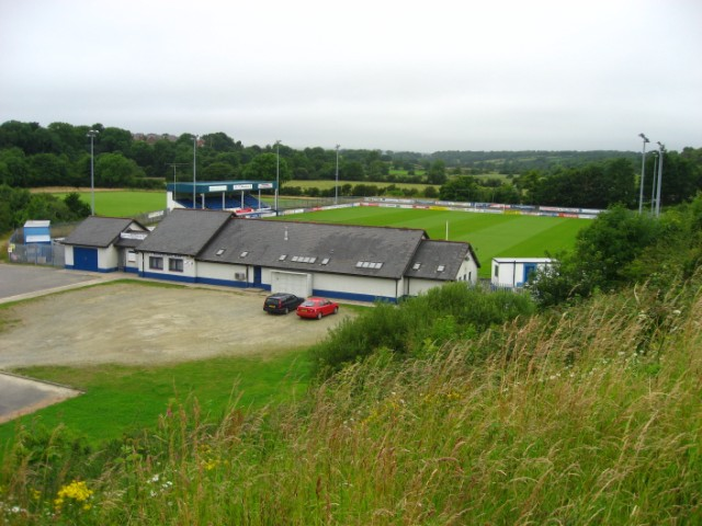 Haverfordwest football ground